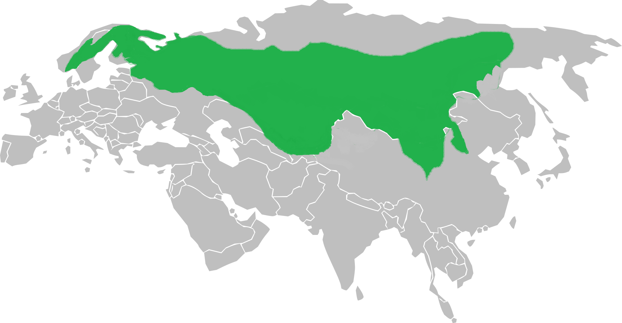 Current geographical distribution of the Siberian jay Perisoreus infaustus